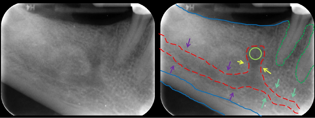 Periapical radiograph depicting the junction of the mandibular canal and the mandibular incisive canal near the mental foramen.